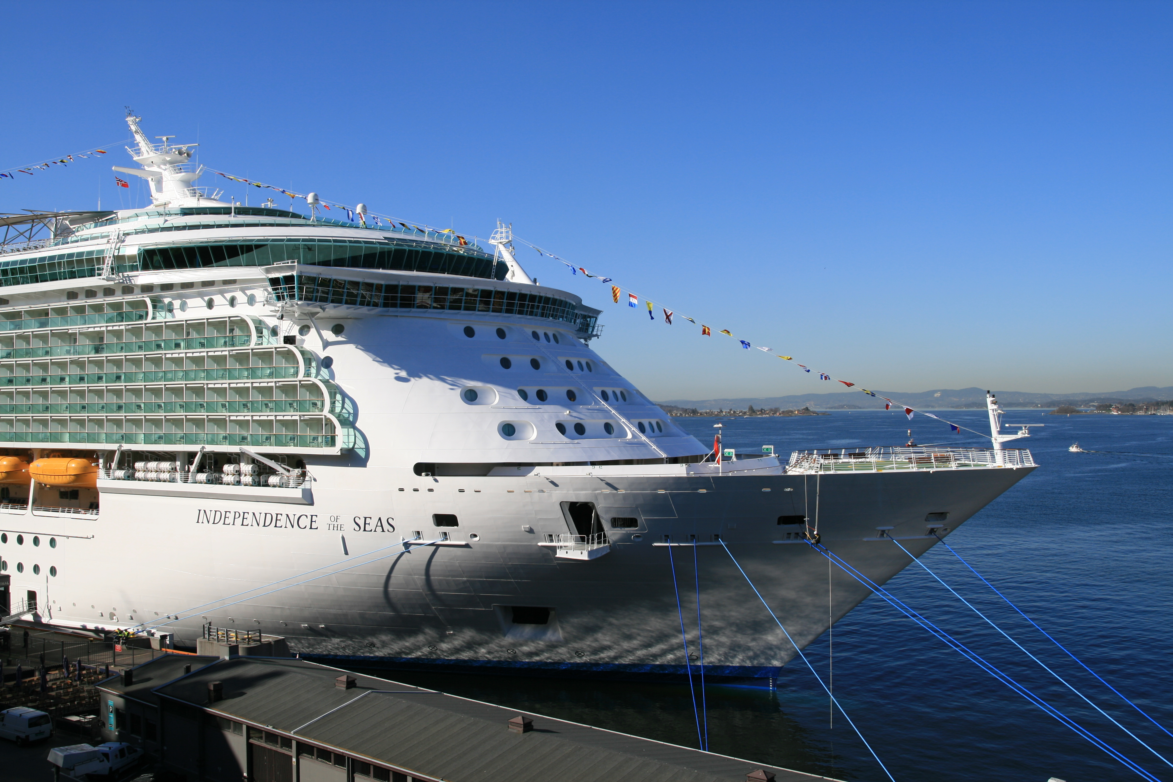 The Independence of the Seas at anchor in Oslo harbor.